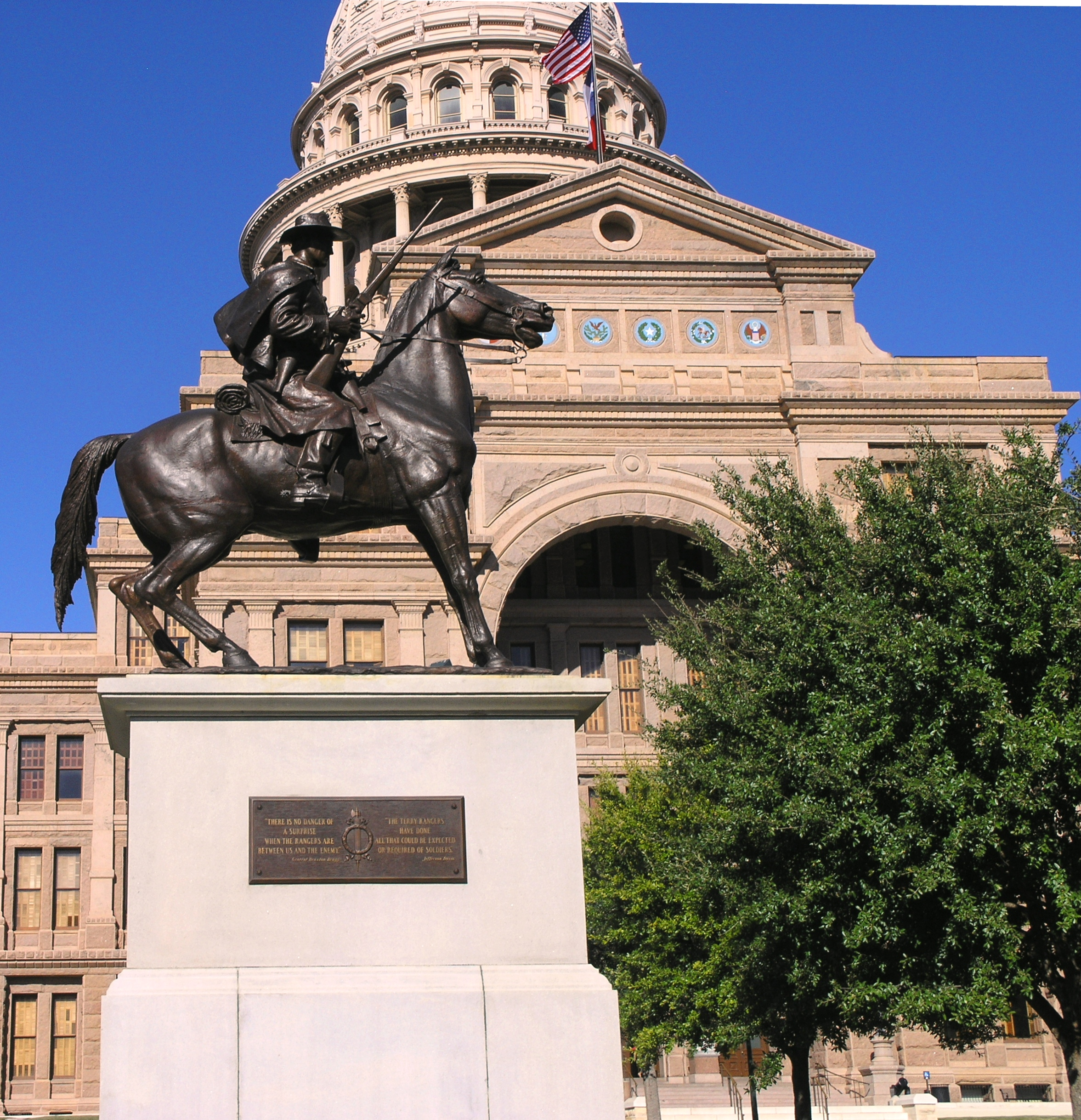 Image of Austin, Texas